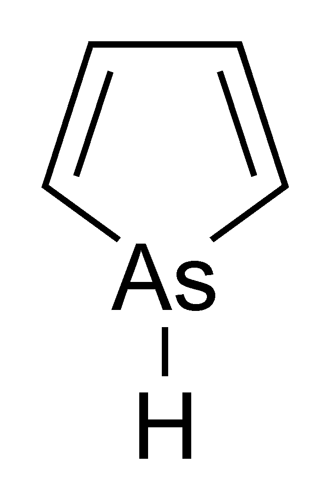 Chemical structure of Arsole (high-resolution b/w; ChemDraw / Photoshop).